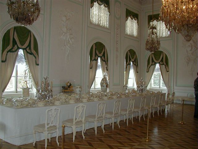 French style interior of the Peterhof, dining room.